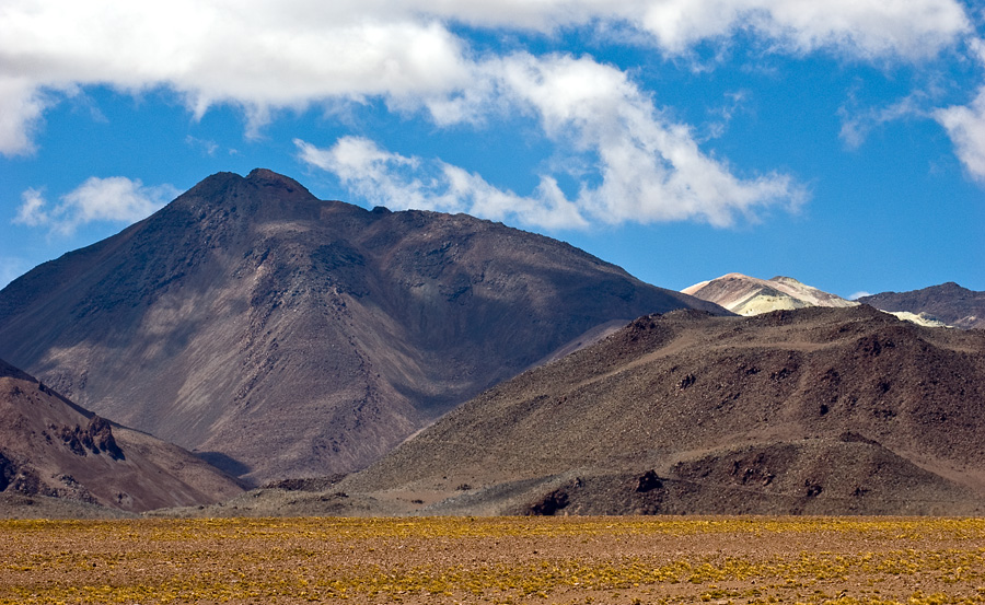 The cerro (volcán) Curiquinca lies at the extreme north of the Sairecabur volcanic complex, and about 4 km (2 mi) south of the Putana volcano. The light area behind the mountain is part of the now abandoned "azufrera El Apagado" sulfur mine.